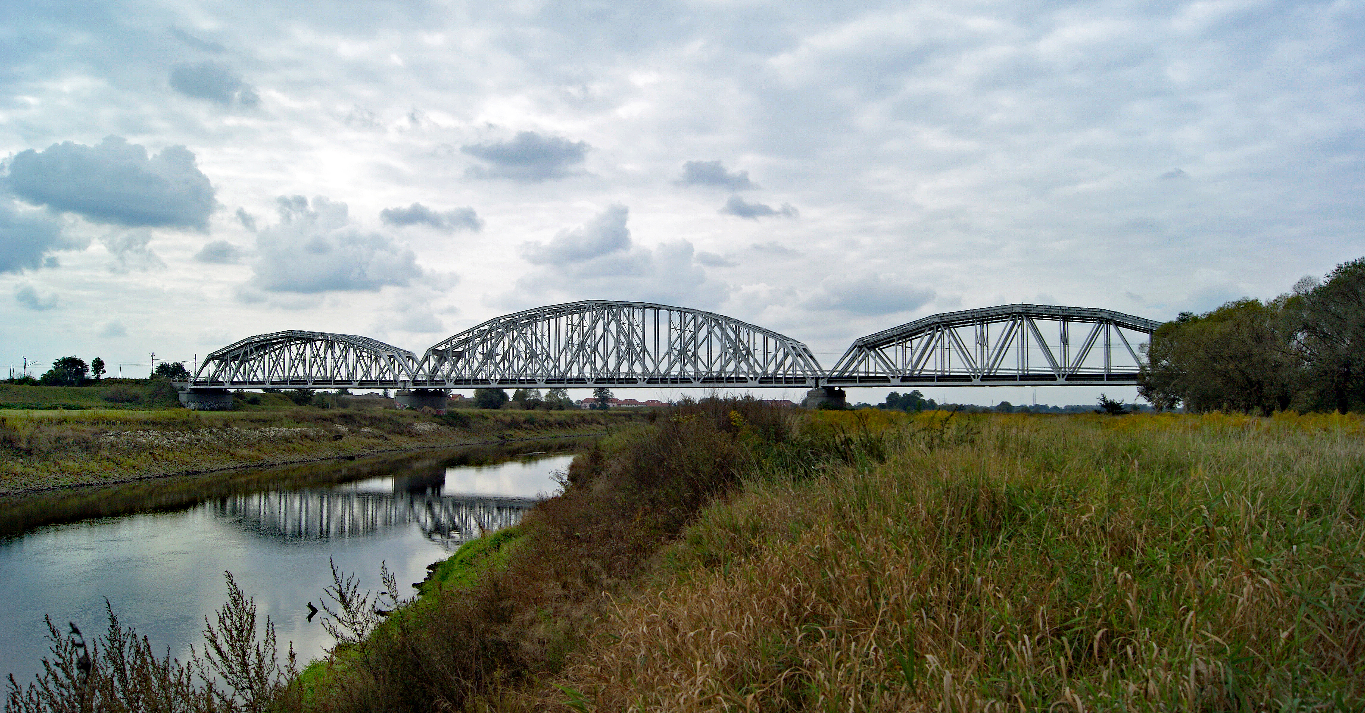 Railroad bridge, Przylasek Rusiecki, Nowa Huta, Kraków, Poland